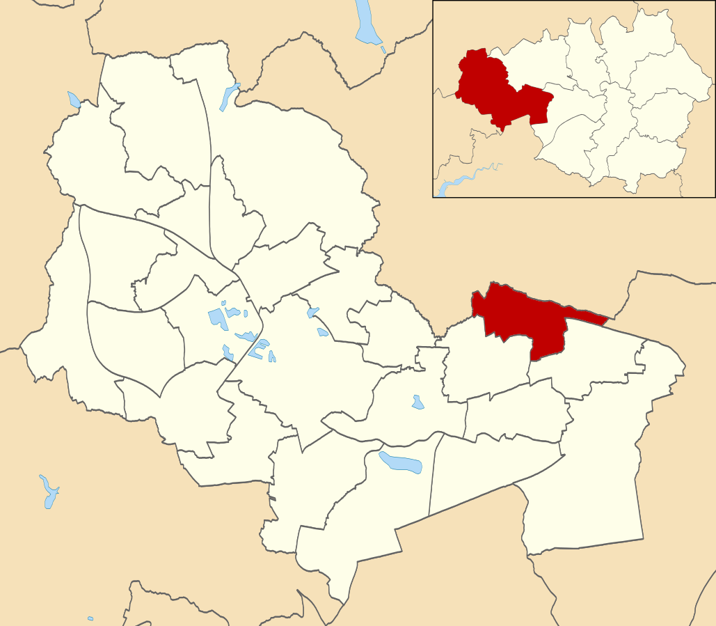 Map showing the location of Atherton ward within Wigan Metropolitan Borough Council